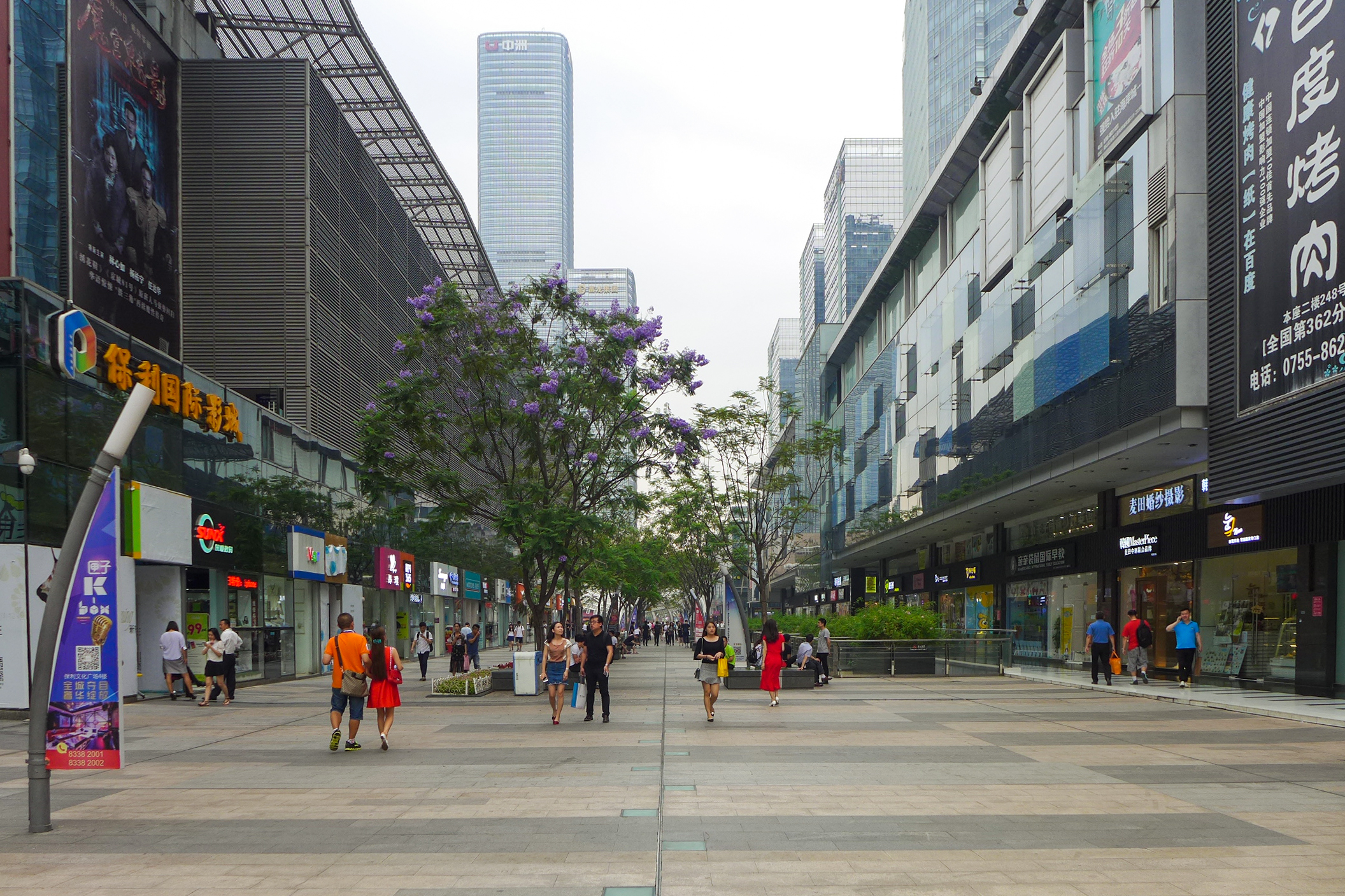 Poly Cultural Centre walkway